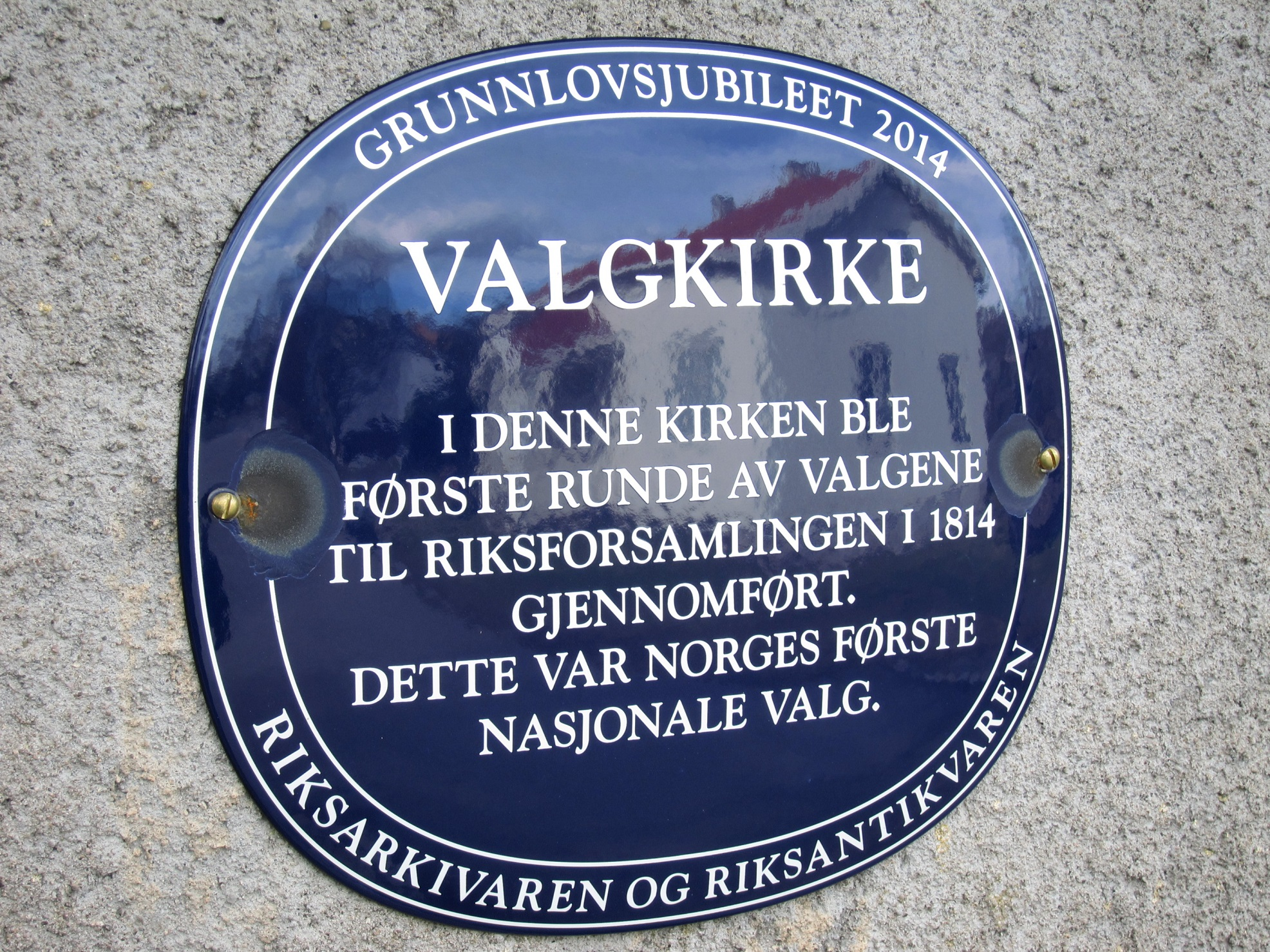 Plaque commemorating the elections to the 1814 constitutional assembly. Elections were held in Vang church (and 300 other churches throughout the country)